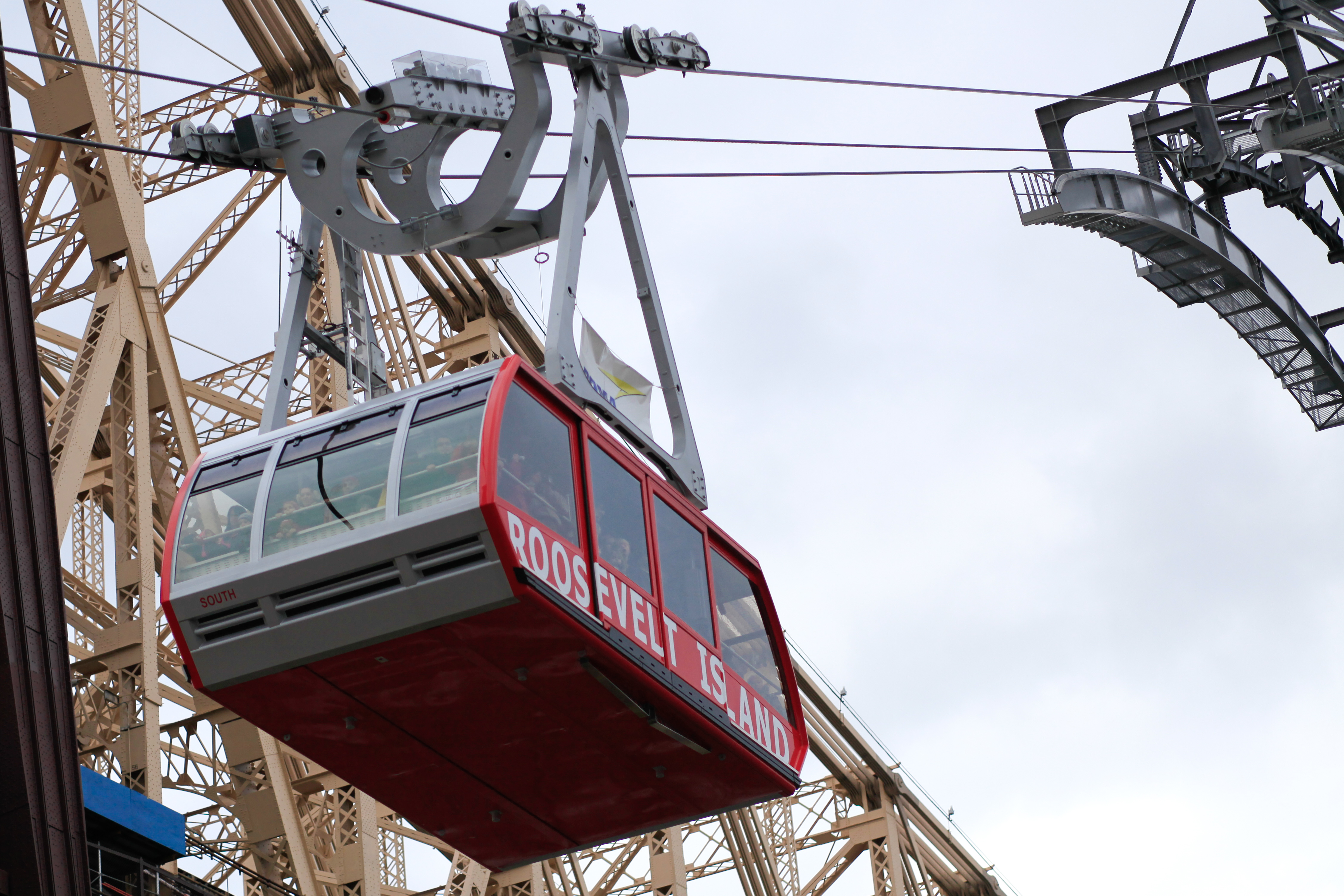 The new cars that went into service in 2010 on the Roosevelt Island Tramway